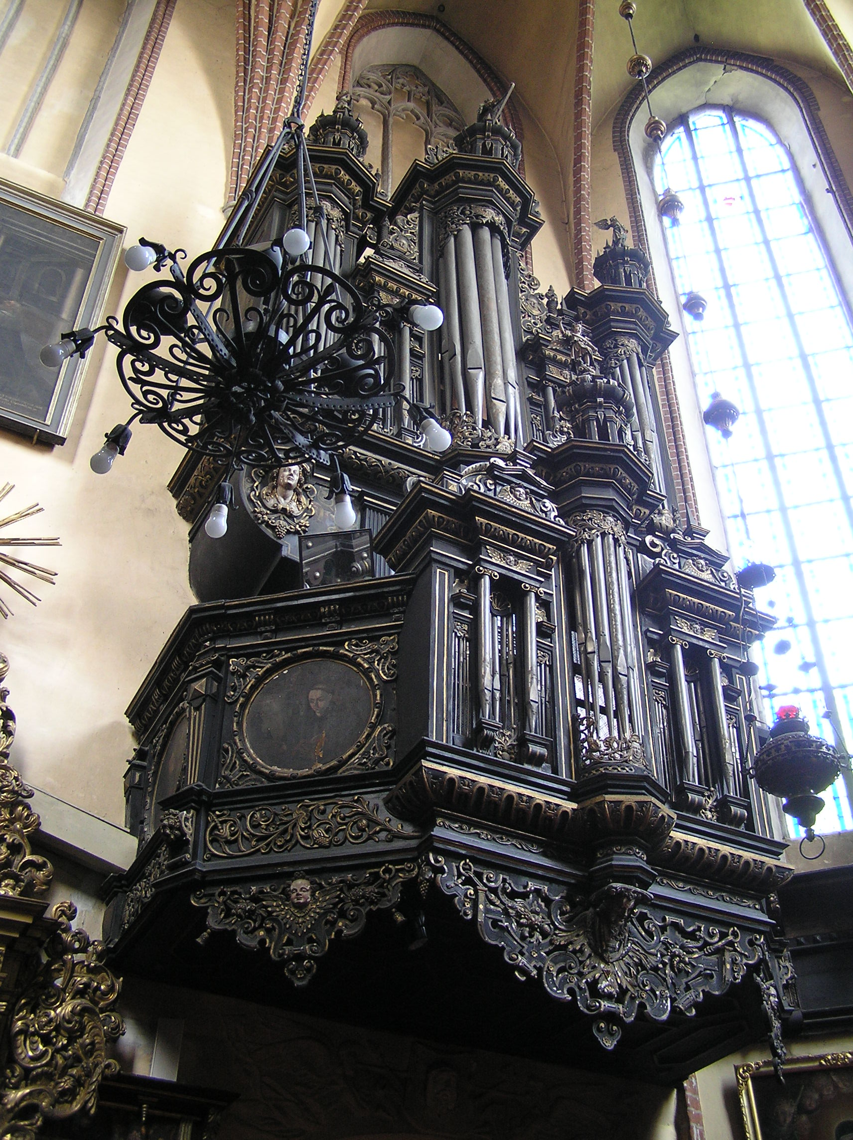 Chełmno, Church of SS. Johns, by 1429 Cistersian nun's, by 1821 Benedictine nun's, nowadays Sisters' of Charity, organ